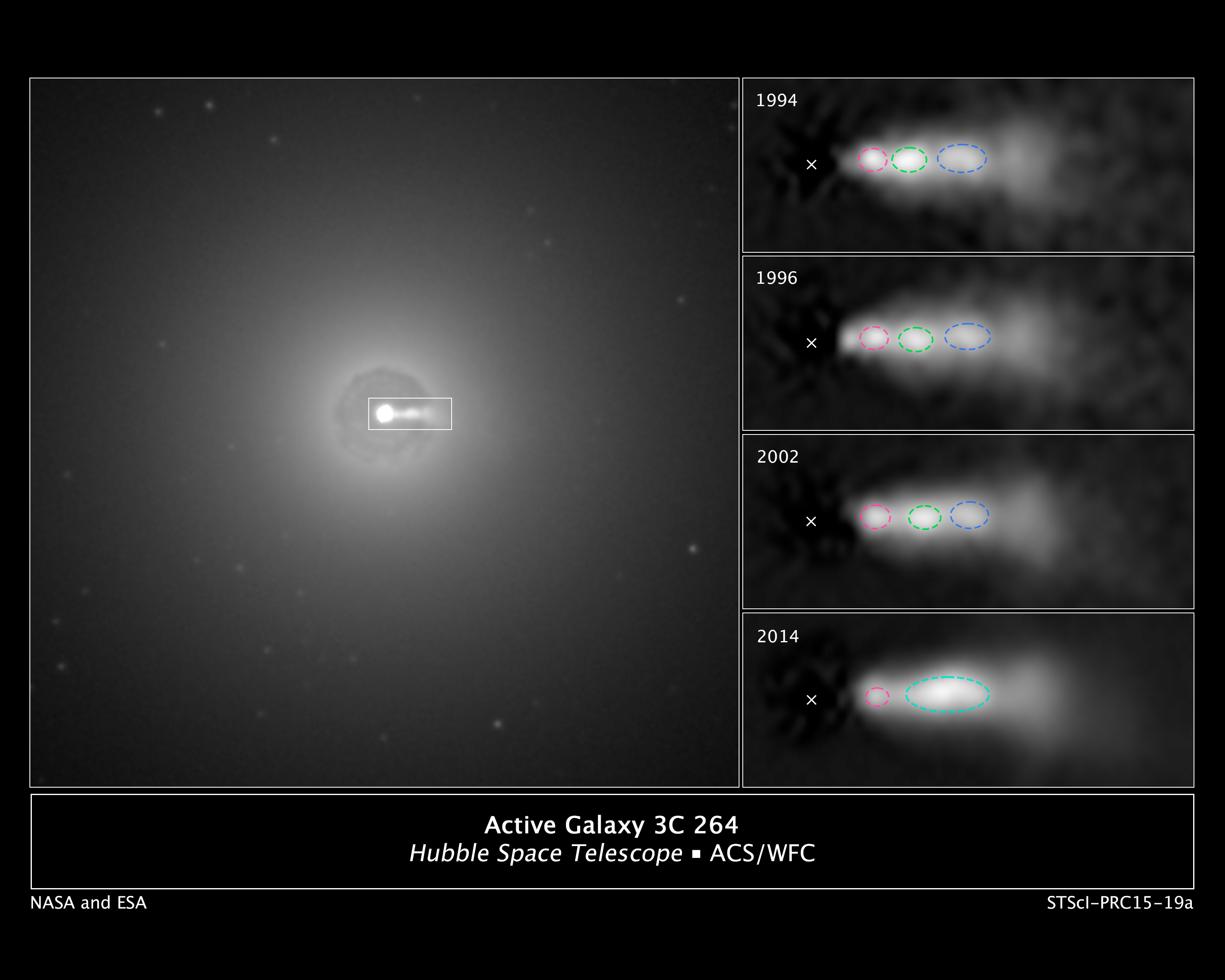 [Left] In this NASA Hubble Space Telescope image of the central region of the galaxy NGC 3862, an extragalactic jet of material moving at nearly the speed of light can be seen at the three o'clock position. The jet of ejected plasma is powered by energy from a supermassive black hole at the center of the elliptical galaxy, which is located 260 million light-years away in the constellation of Leo. [Right] A sequence of Hubble images of knots (outlined in red, green, and blue) shows them moving along the jet over a 20-year span of observing. Astronomers were surprised to discover that the central knot (green) caught up with and merged with the knot in front of it (blue). The new analysis suggests that shocks produced by collisions within the jet further accelerate particles that are confined to a narrowly focused beam of radiation. The "X" marks the location of the black hole.